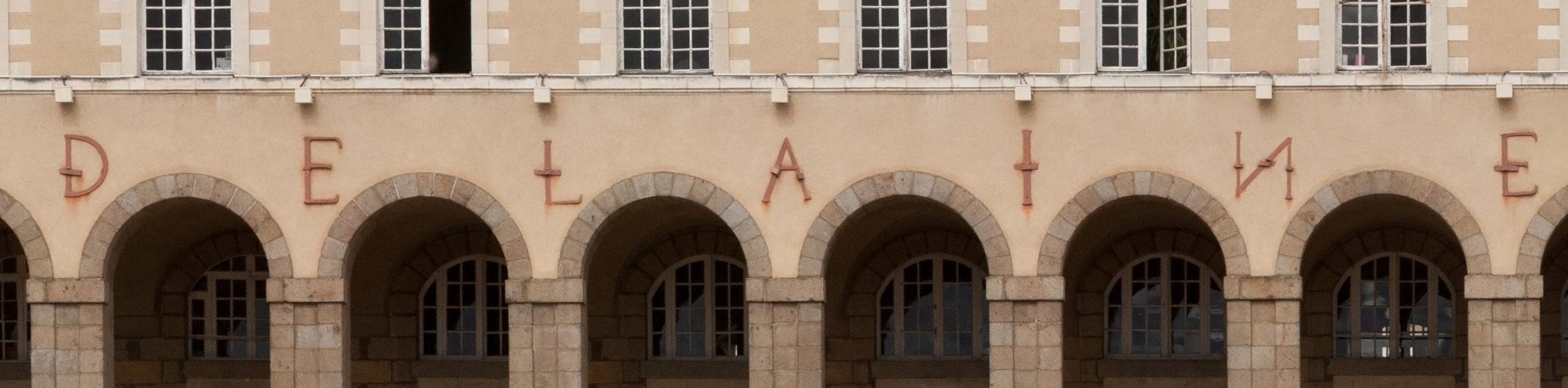 Detail showing the iron bar letters above the piers of the arches of the Palais Saint-Georges.